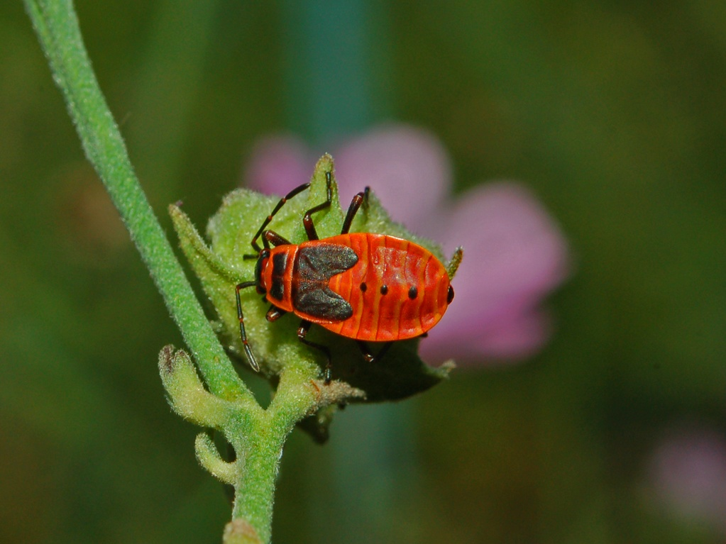 Pyrrhocoris apterus